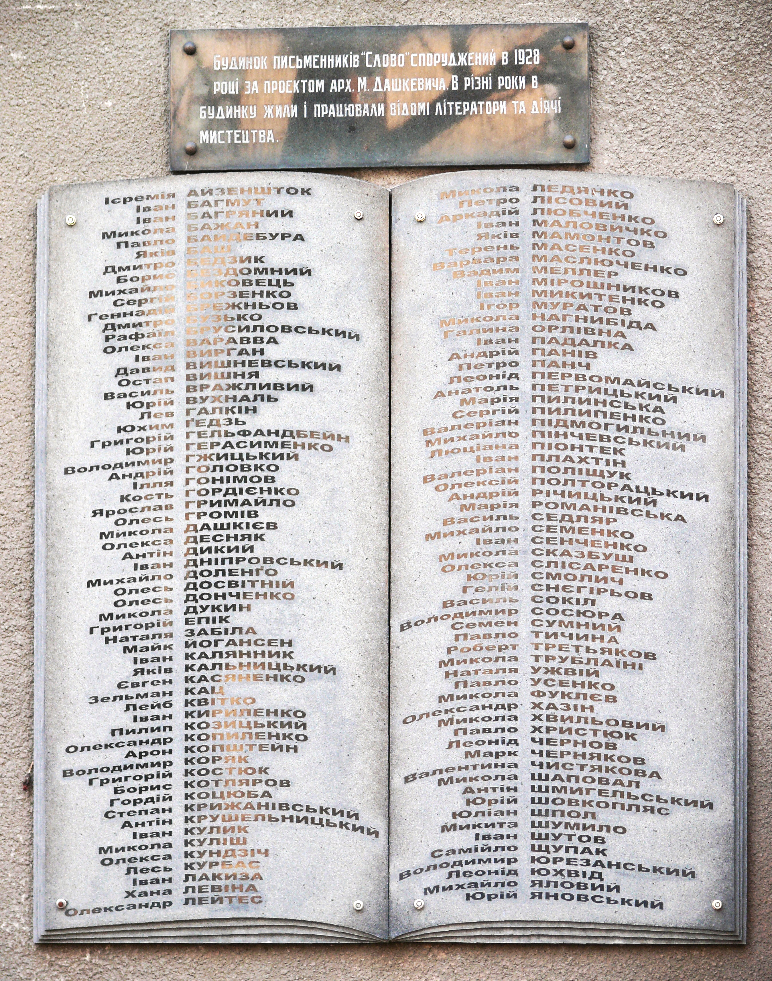 Slovo House in Kharkov. Memorial Table